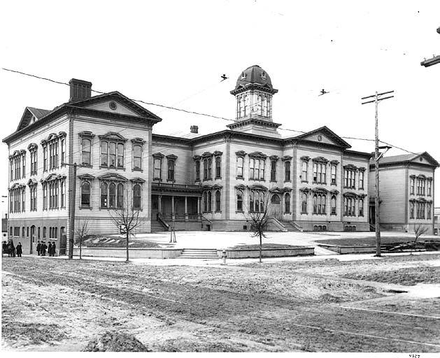 In the final regrade of Denny Hill, the Denny School was torn down in 1928. The cupola was preserved and placed in Denny Park. Subjects (LCTGM): Schools--Washington (State)--Seattle Subjects (LCSH): Denny School (Seattle, Wash.)